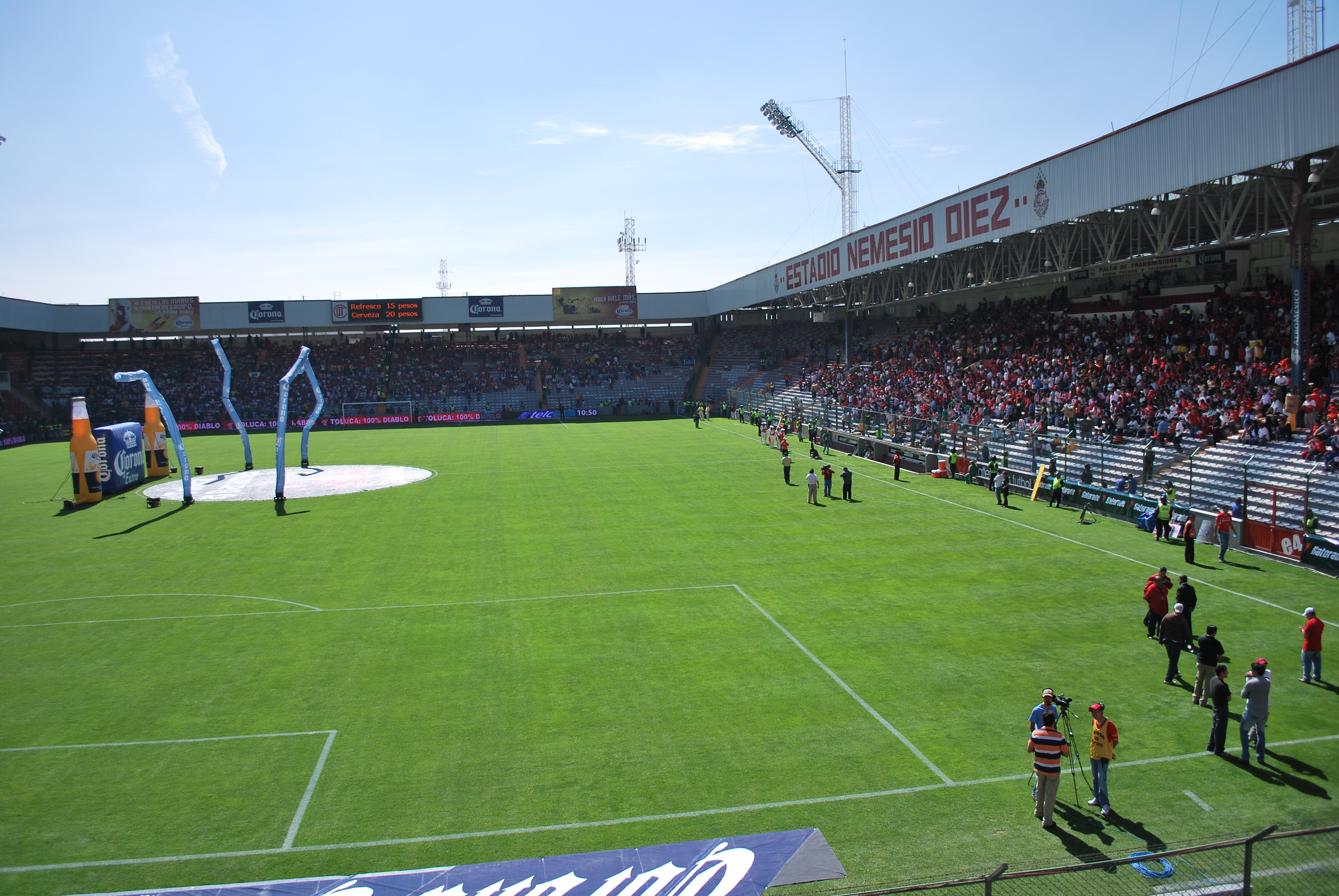 Estadio Nemesio Diez before the start of the Toluca vs Chivas game on 26 July 2009